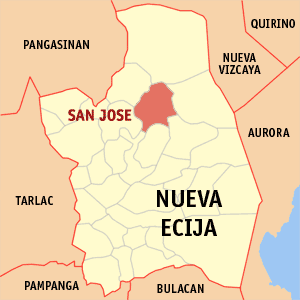 Map of Nueva Ecija showing the location of San Jose